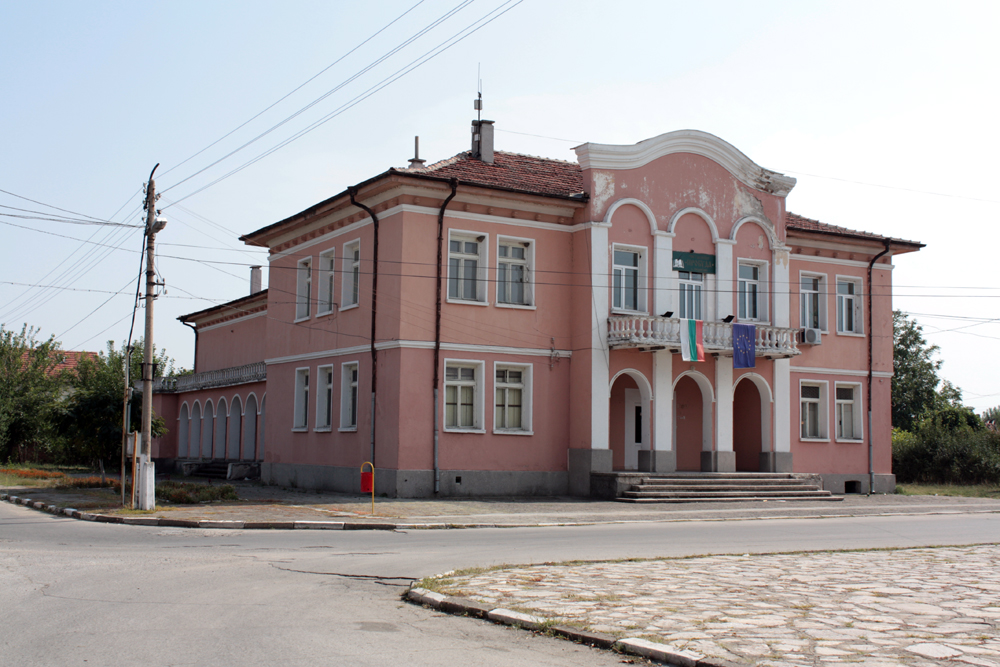 Culture club (Citalishte) of Pishtigovo village, Bulgaria